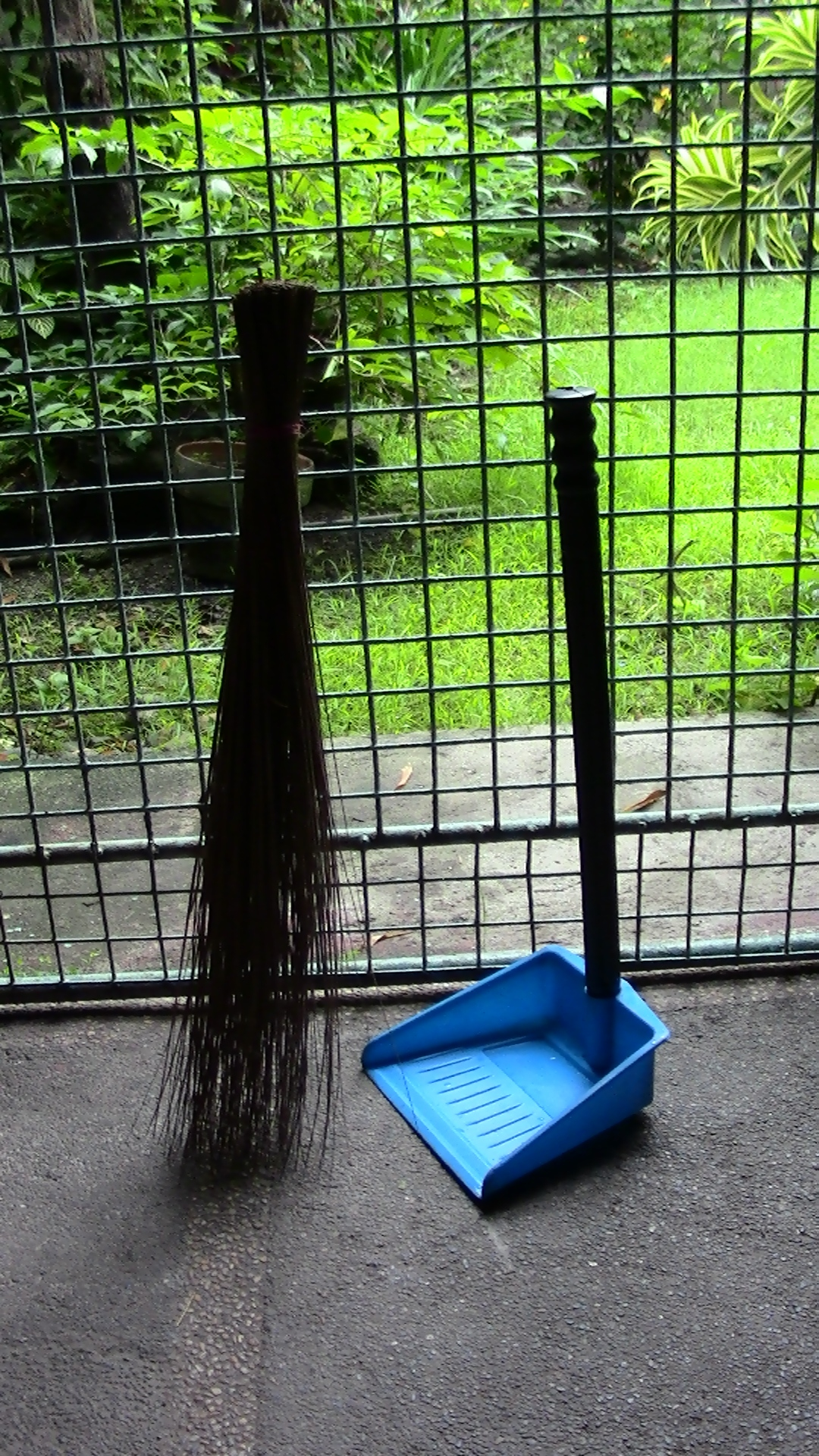 Philippine hard broom (walis tingting) and plastic dustpan.